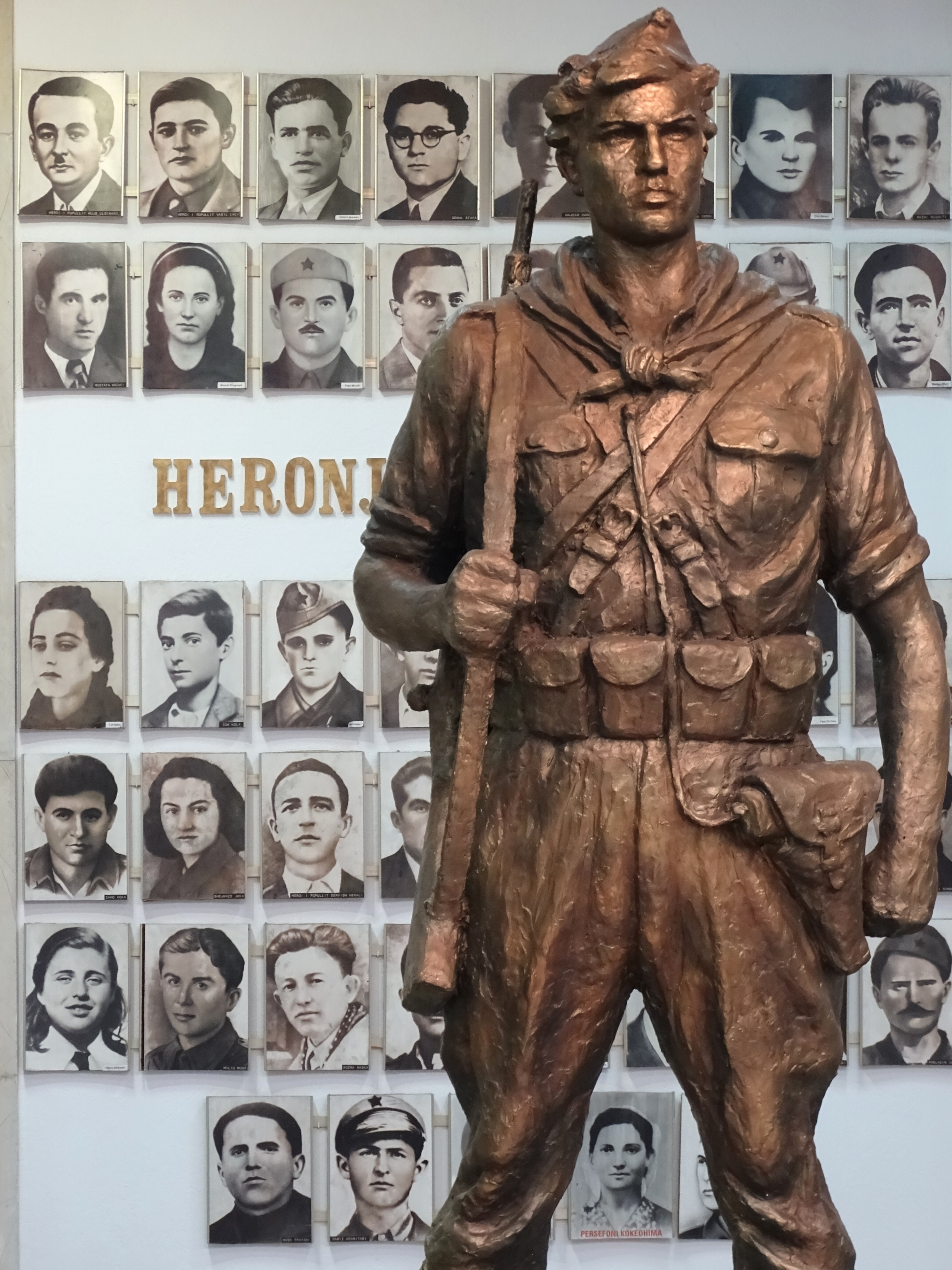 Photos by Adam Jones